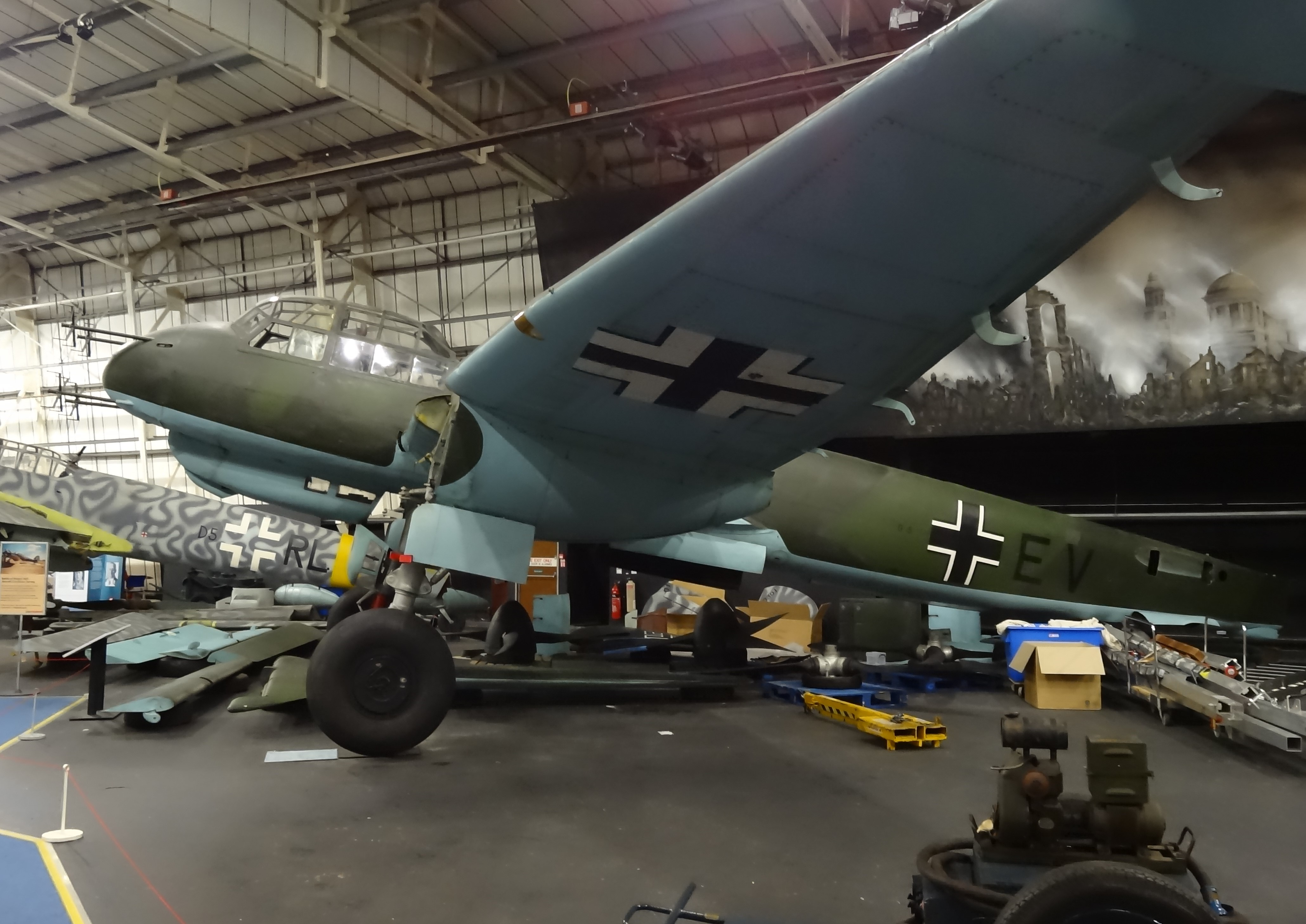 Junkers Ju 88 360043 - some maintenance going on